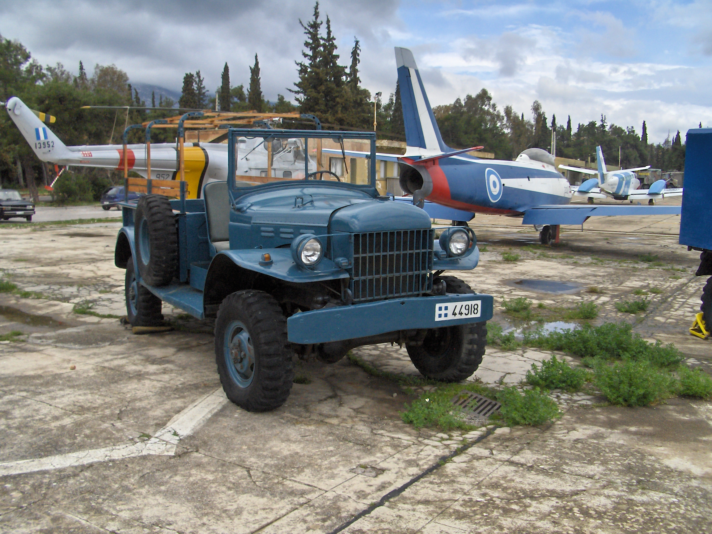 Exhibit at the Hellenic Air Force Museum at Dekelia (Tatoi), Athens, Greece.